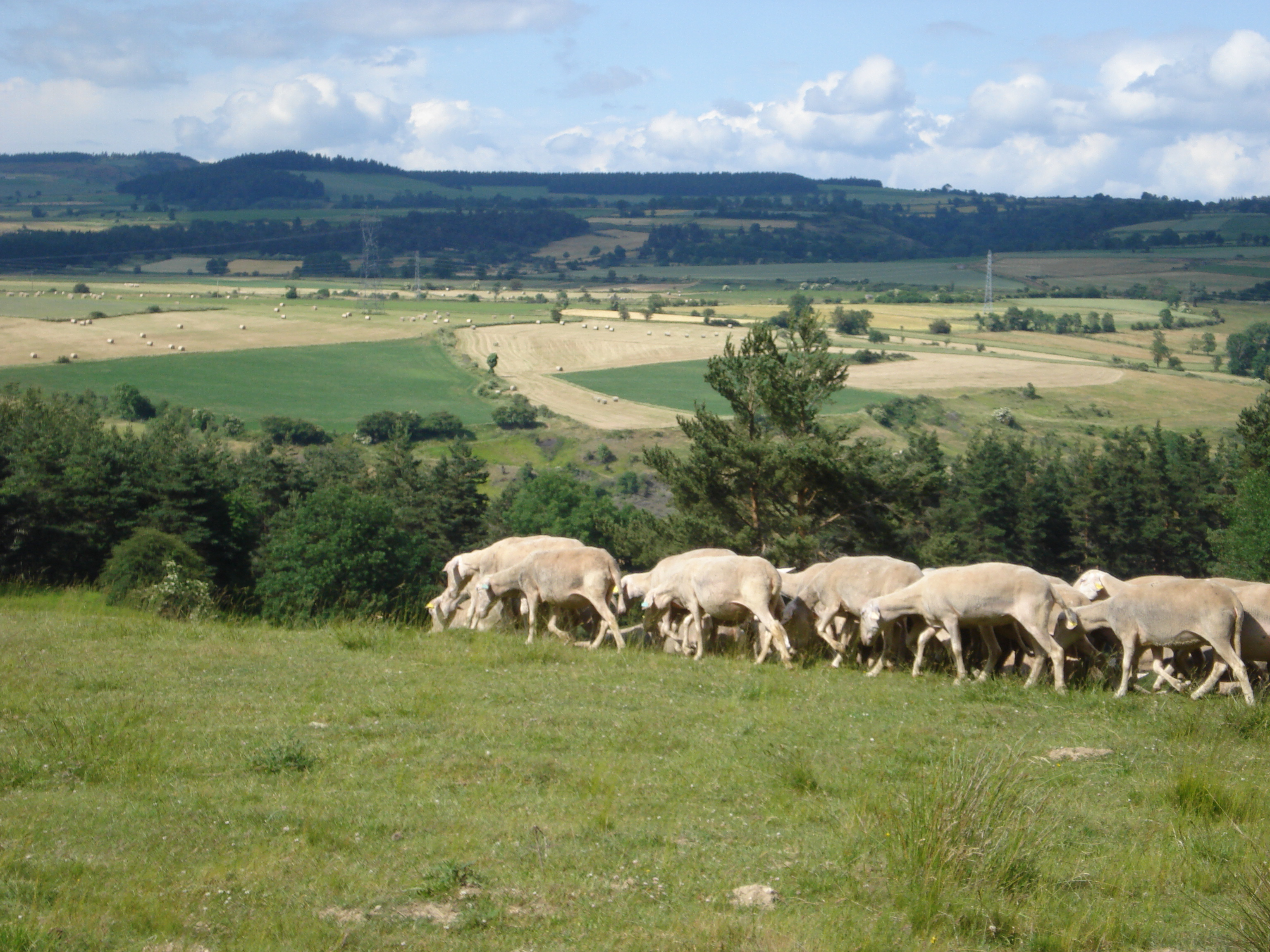 Fontanes (Lozère, Fr), sheep on the mountain meadow.